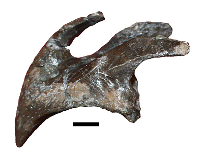 Holotype (MTM V 2009.192.1) of Ajkaceratops kozmai Ősi et al., 2010 (Dinosauria: Ceratopsia), fused rostral and premaxillae, in lateral view, length of scale bar = 1 cm.